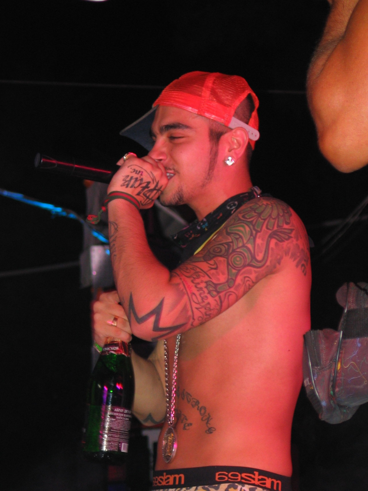 Performance of Timati and DJ Dlee in Gelendzhik, Russia at club "Formula" (aquadiscothèque "Formula").